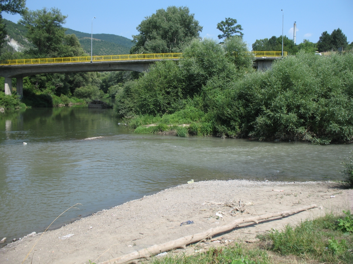 Confluence of Raška river in Ibar,Raška,Serbia.